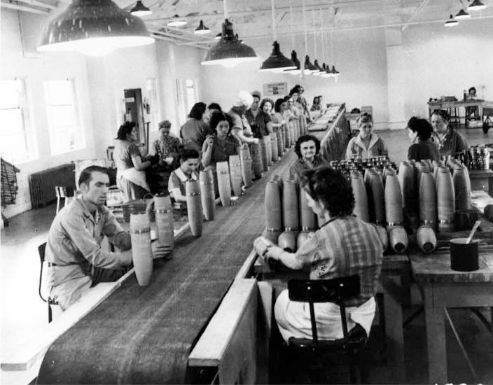 1940's munitions production at Redstone Arsenal.